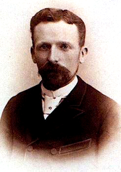 Theo van Gogh